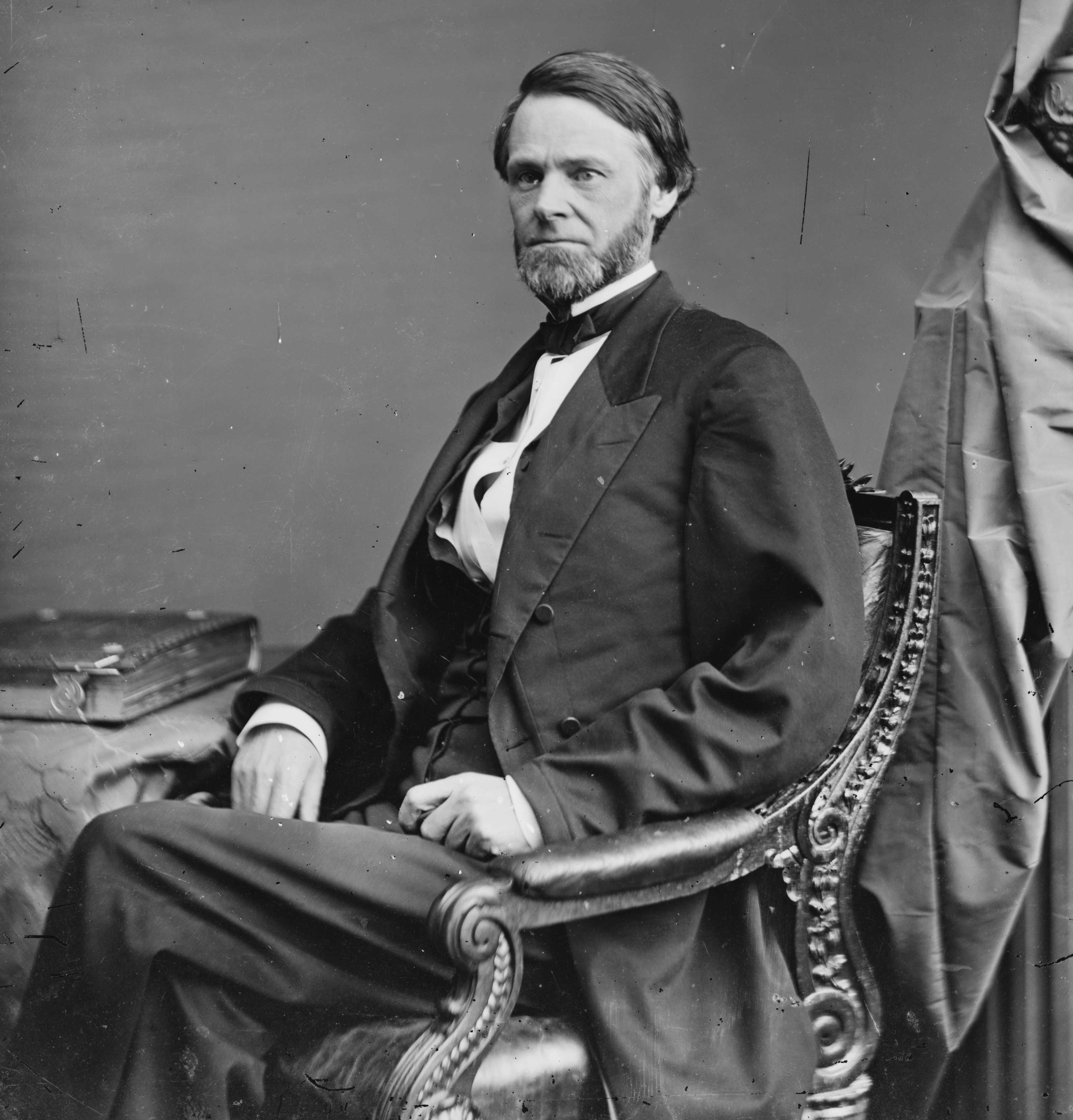 John Sherman (politician), former Secretary of the Treasury of the United States.